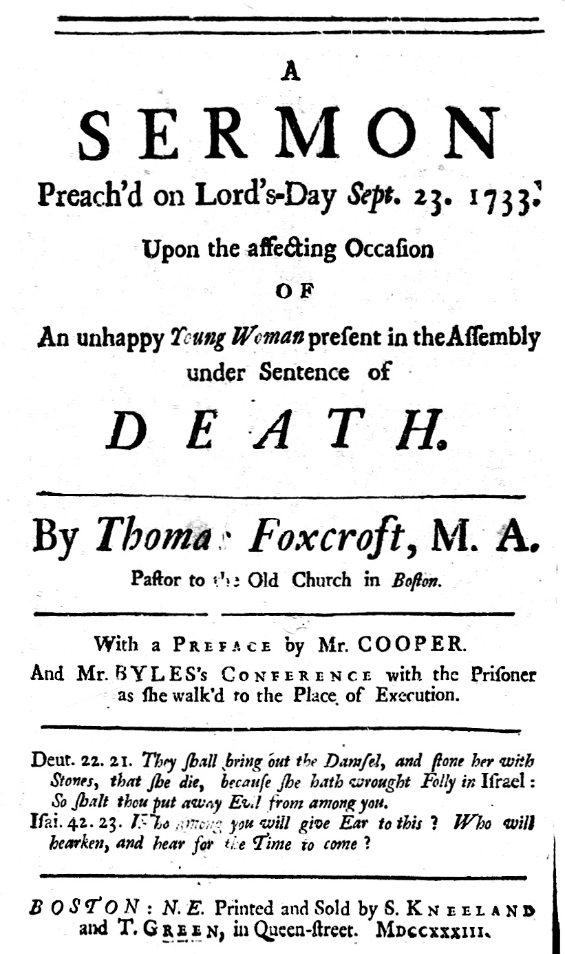 Lessons of caution to young sinners. A sermon preach'd on Lord's-Day Sept. 23. 1733. Upon the affecting occasion of an unhappy young woman [i.e., Rebekah Chamblit] present in the assembly under sentence of death. By Thomas Foxcroft, M.A. Pastor to the Old Church in Boston. With a preface by Mr. Cooper. And Mr. Byles's conference with the prisoner as she walked to the place of execution.